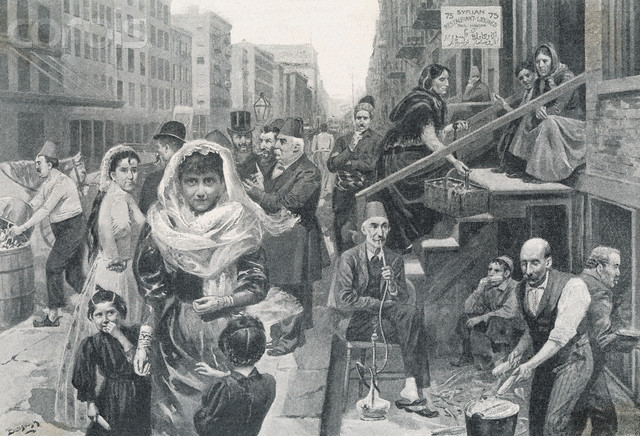 Everyday Activities of Syrian People Original caption: The Foreign element in New York, the Syrian colony, Washington Street. Drawn by W. Bengough.